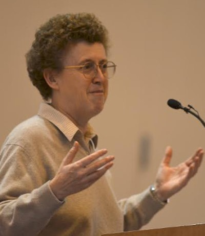 Picture of Elaine Bernard giving a lecture 2012